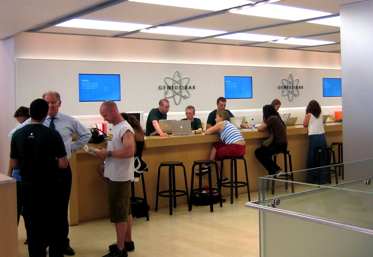 Picture of the Genius Bar in the Apple Store on Regent Street, London.Applestore London: Genius bar